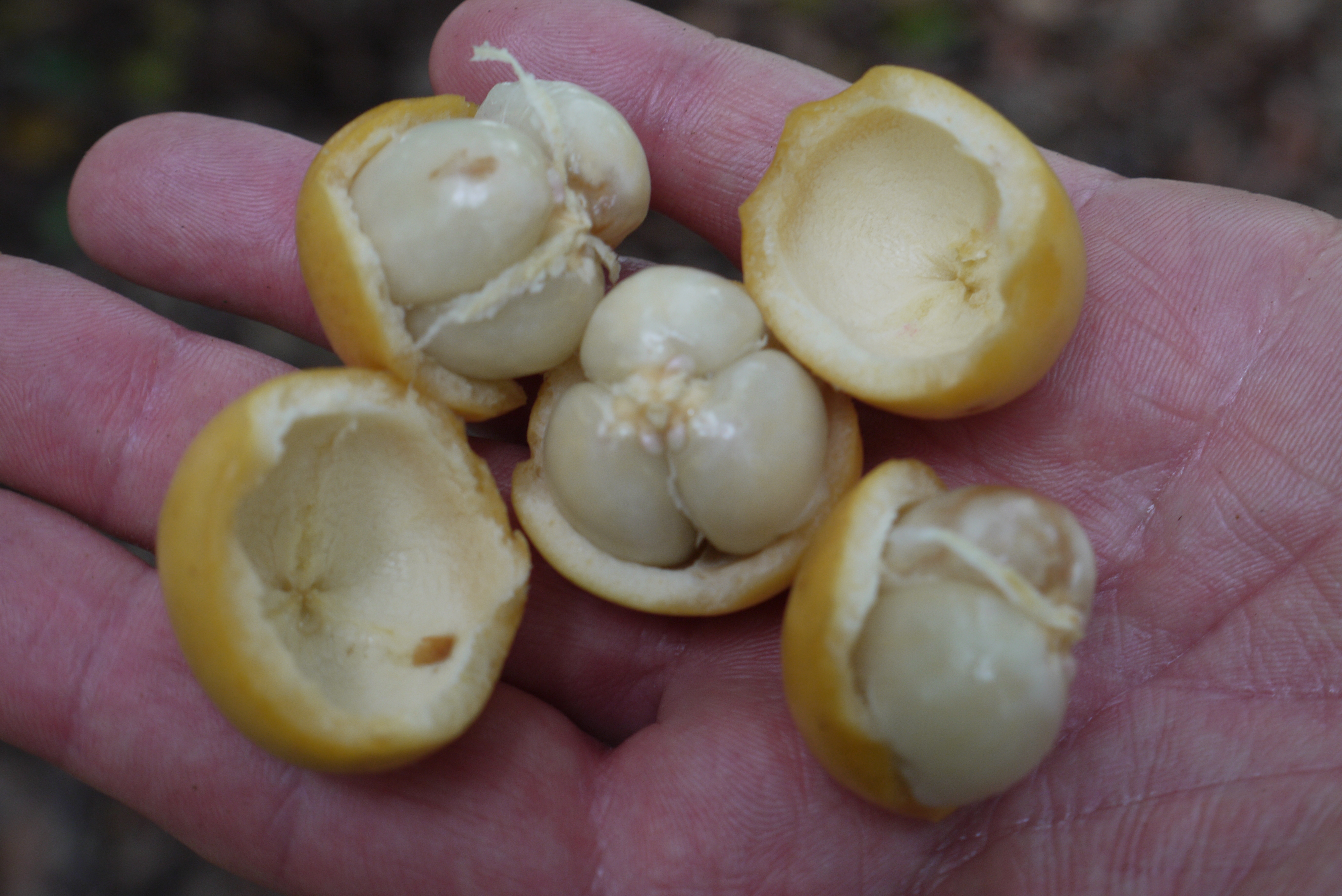 Rambai fruits (Baccaurea motleyana) cut open to show seeds. The pulp is sweet to acid in taste. Locality: MARDI rare fruit genebank in Serdang, Selangor, Malaysia.